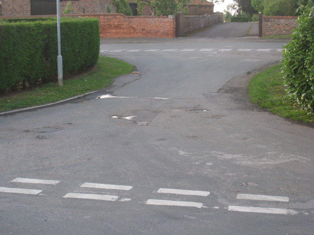 Very short street